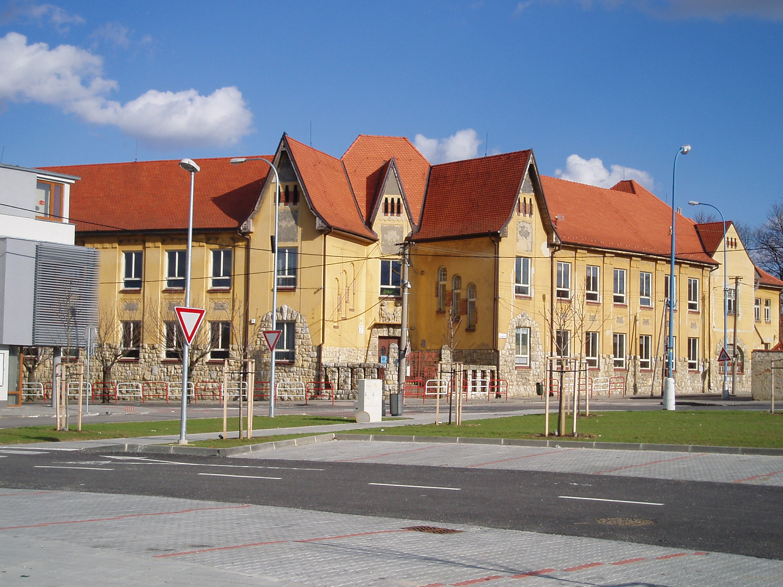 Christian school, Hlohovec, Slovakia This medium shows the protected monument with the number 203-11683/1 in the Slovak Republic. This medium shows the protected monument with the number 203-11683/2 in the Slovak Republic.